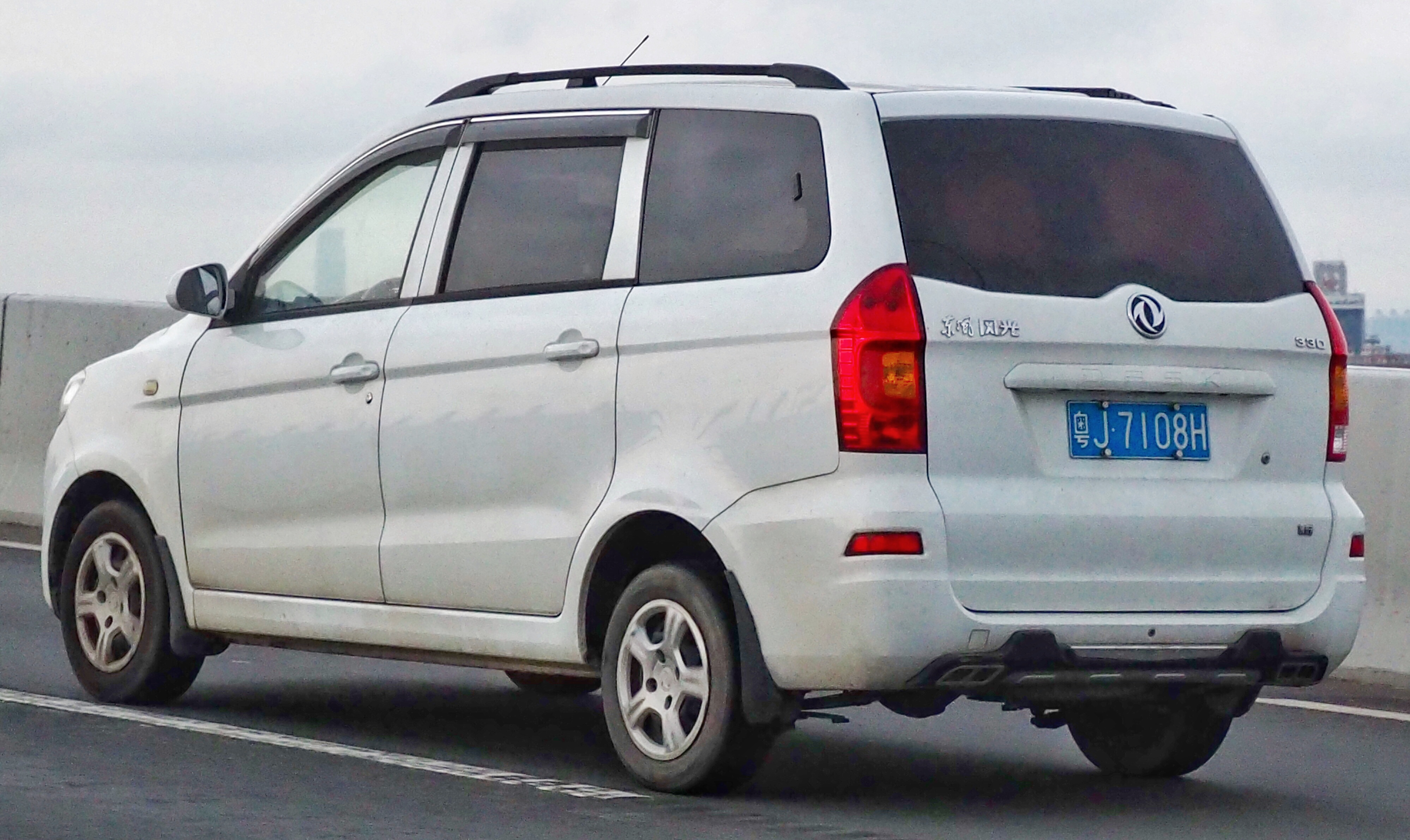 A 2013 Dongfeng Sokon Fengguang 330 taken in Guangzhou, Guangdong province, China. 中文（中国大陆）: 一辆2013年的东风小康风光330，摄于中国广东省广州市。